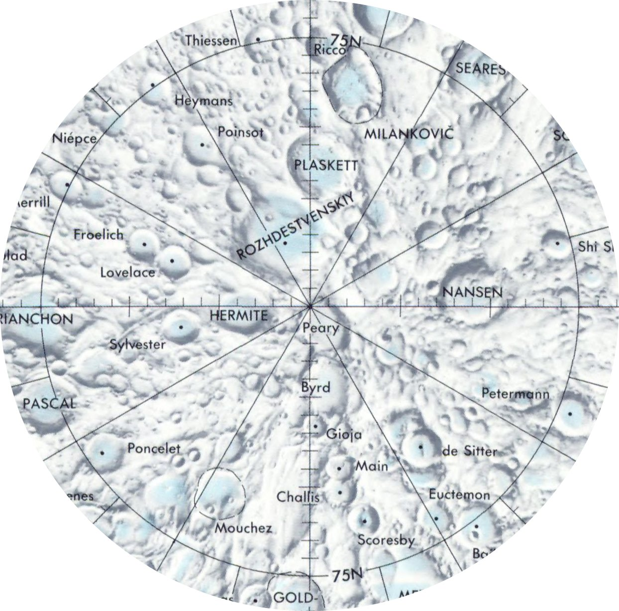 NASA lunar chart of north pole region 1 : 10.000.000 (LPC-1).